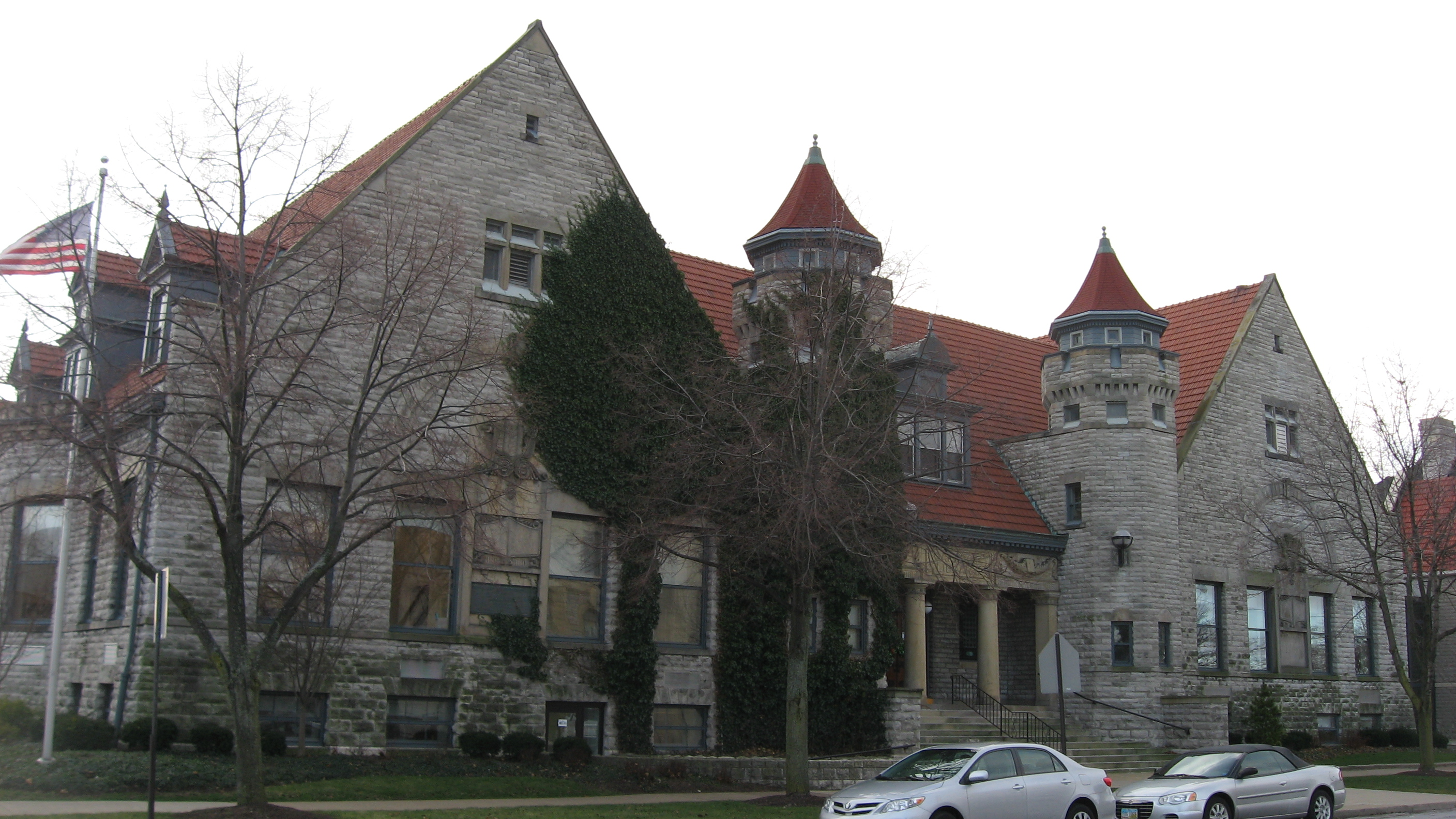 Front of the Sandusky Library, located at 114 W. Adams Street in Sandusky, Ohio, United States. Built in 1901, it is listed on the National Register of Historic Places.